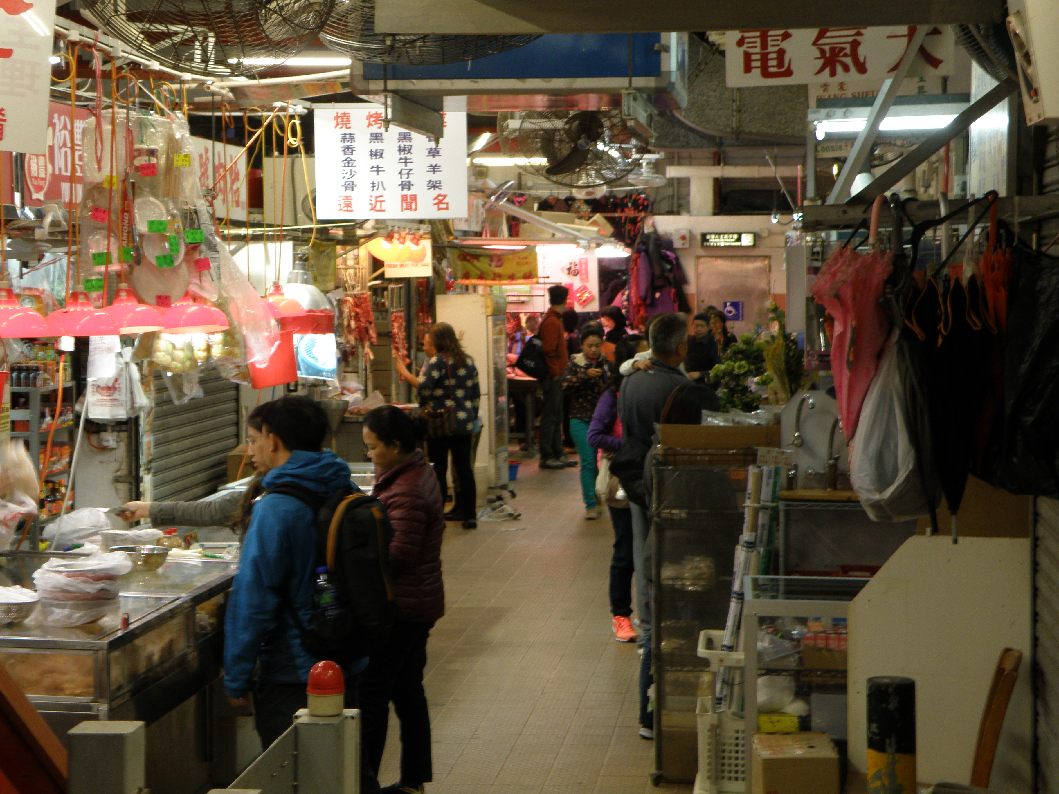 Aberdeen Market in Aberdeen, Hong Kong.